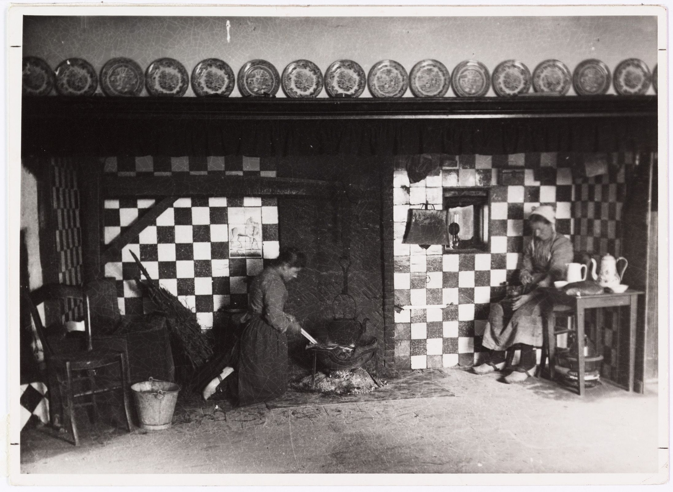 In front of the fireplace